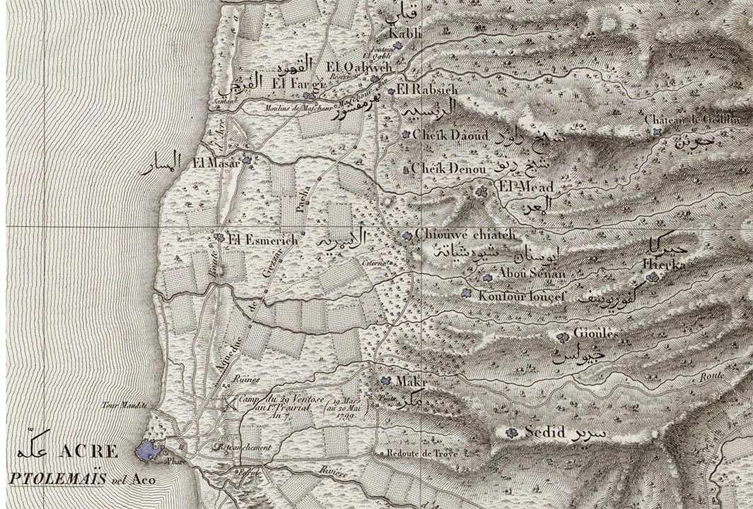 Portion of map of Pierre Jacotin of northern Palestine, prepared during French military expedition of 1799 and published in 1826. Full name: Carte topographique de l'Egypte et de plusieurs parties des pays limitrophes ... . David Rumsey Collection